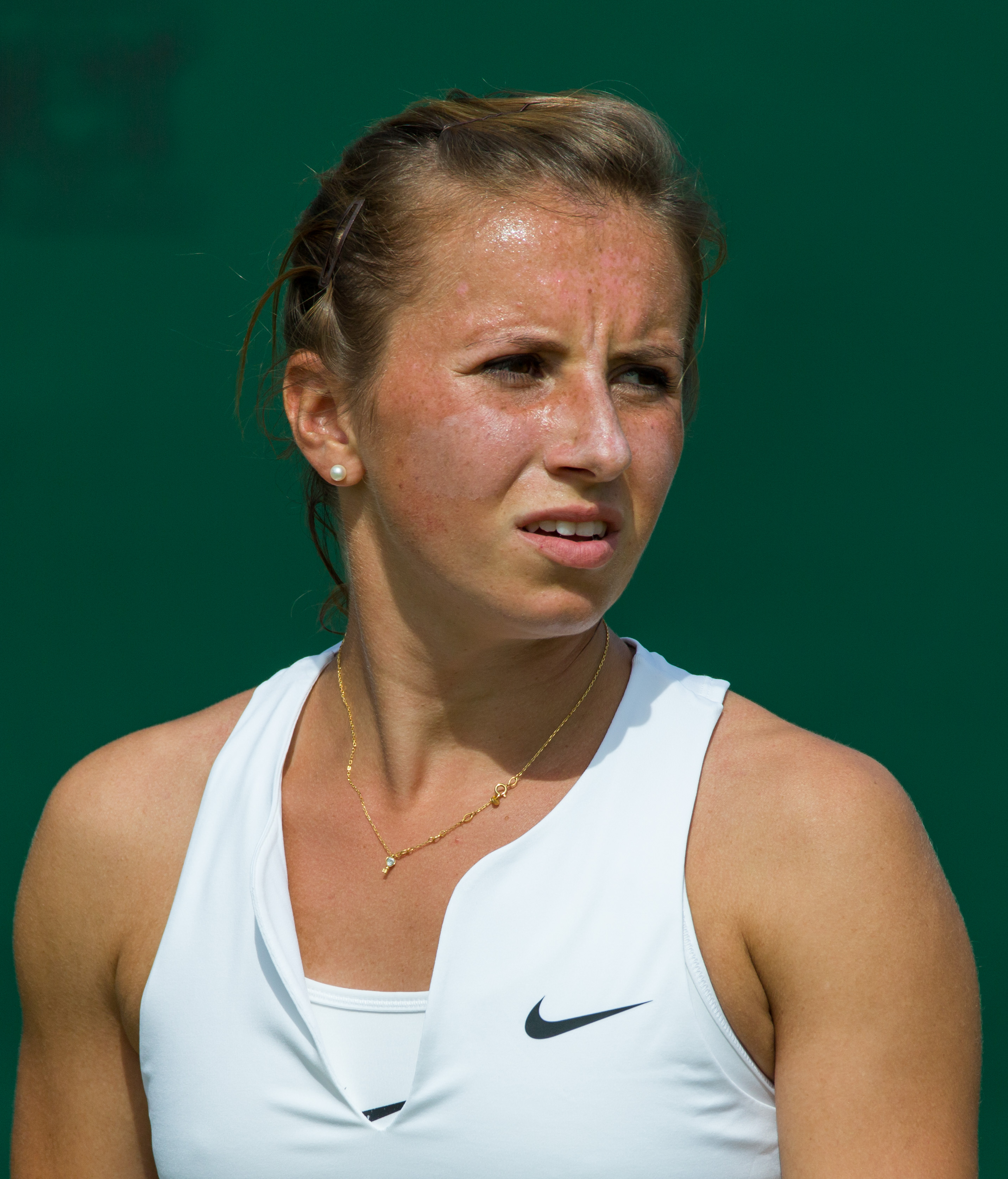 Annika Beck competing in the second round of the 2015 Wimbledon Qualifying Tournament at the Bank of England Sports Grounds in Roehampton, England. The winners of three rounds of competition qualify for the main draw of Wimbledon the following week.